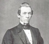 Aaron Harding, US Representative from Kentucky